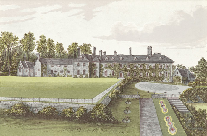 A view of a large mansion with a garden in the foreground and flower beds.